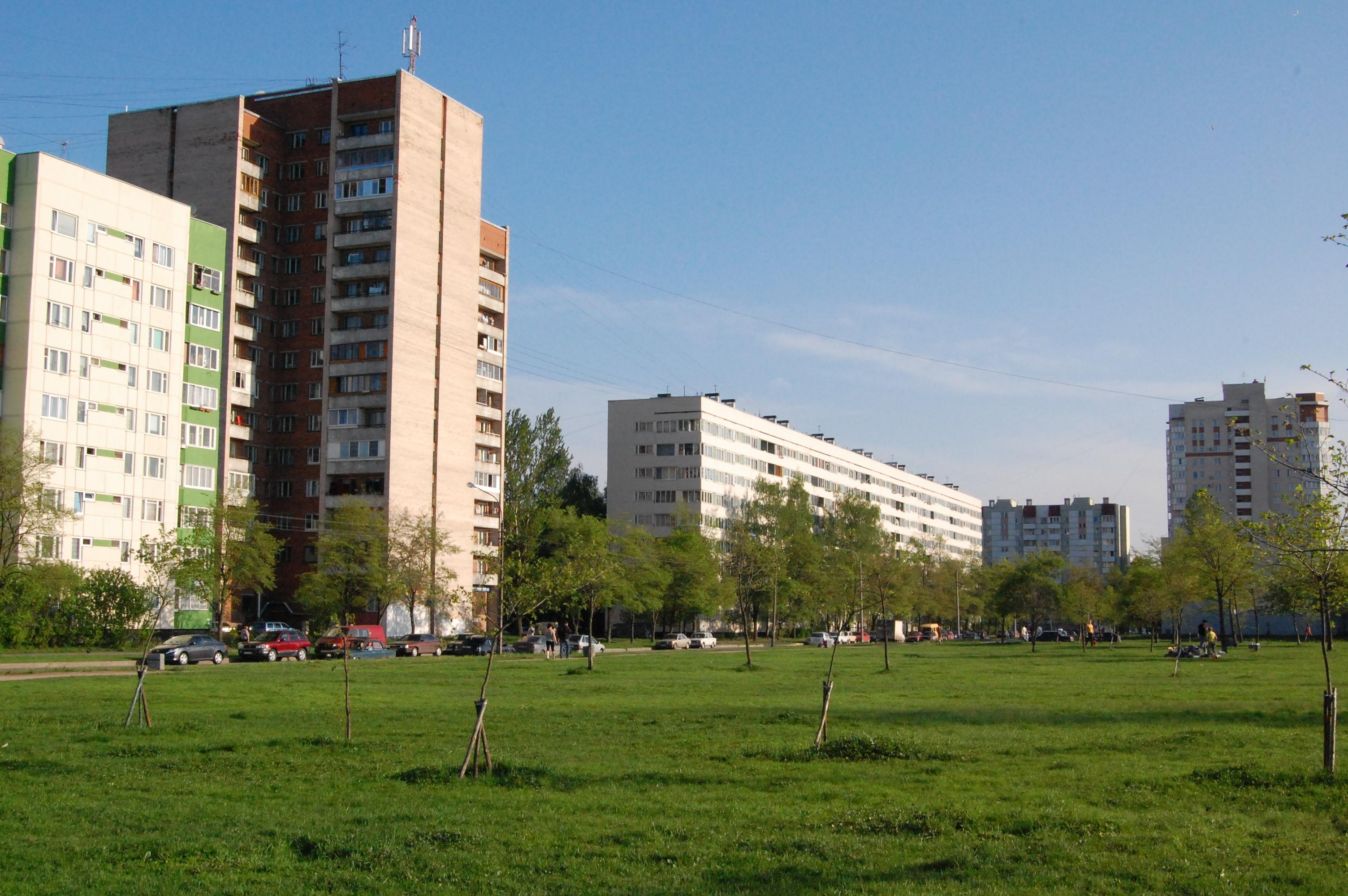 Olgy Forsh Street (Saint Petersburg). Next to the park with a lake and a chapel.